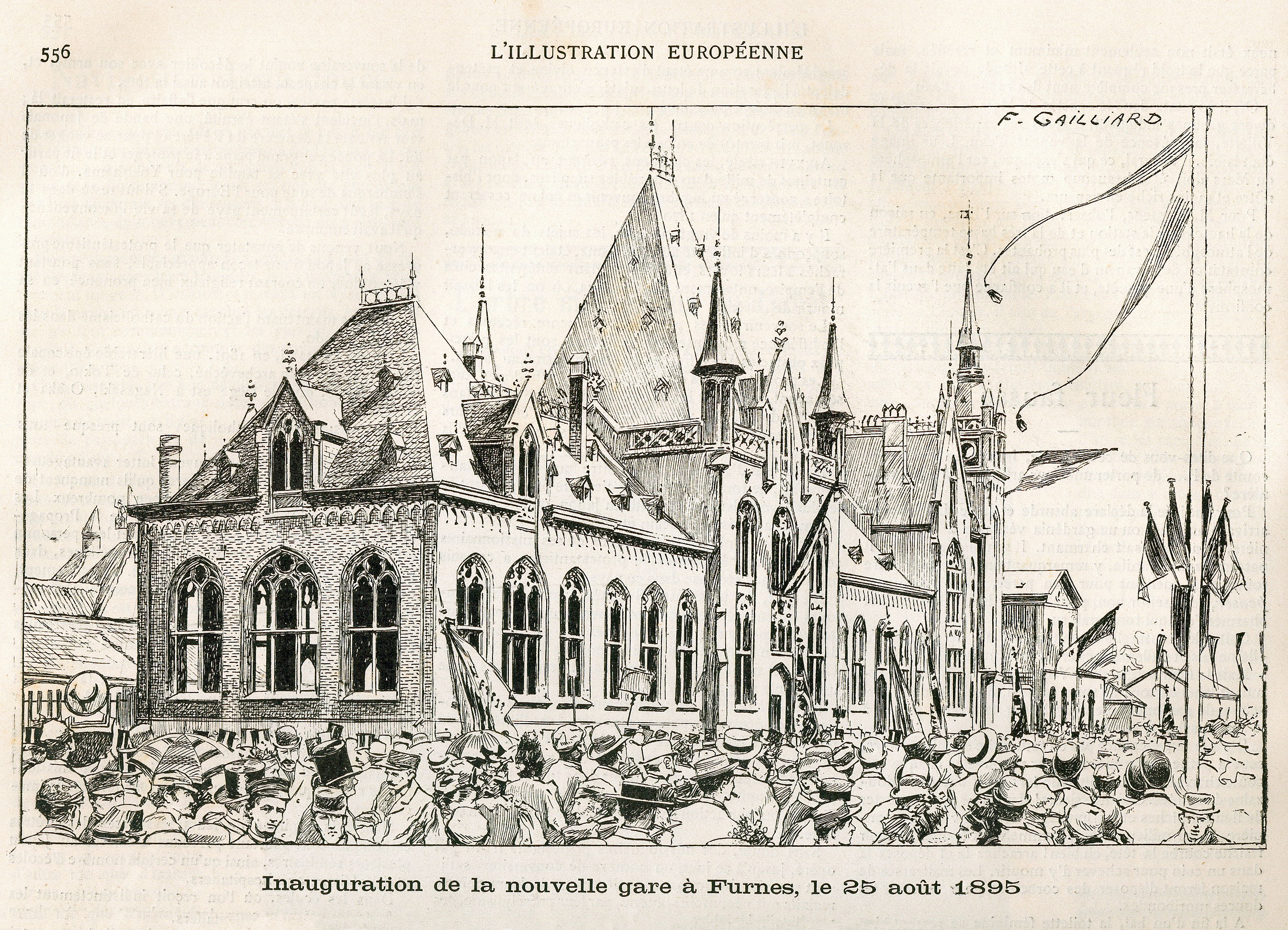 Inauguration of Veurne (Belgium) train station on August 25th, 1895; wood engraving after a drawing of Franz Gailliard (1861-1932), published in the Belgian weekly L'Illustration Européenne of September 1st, 1895